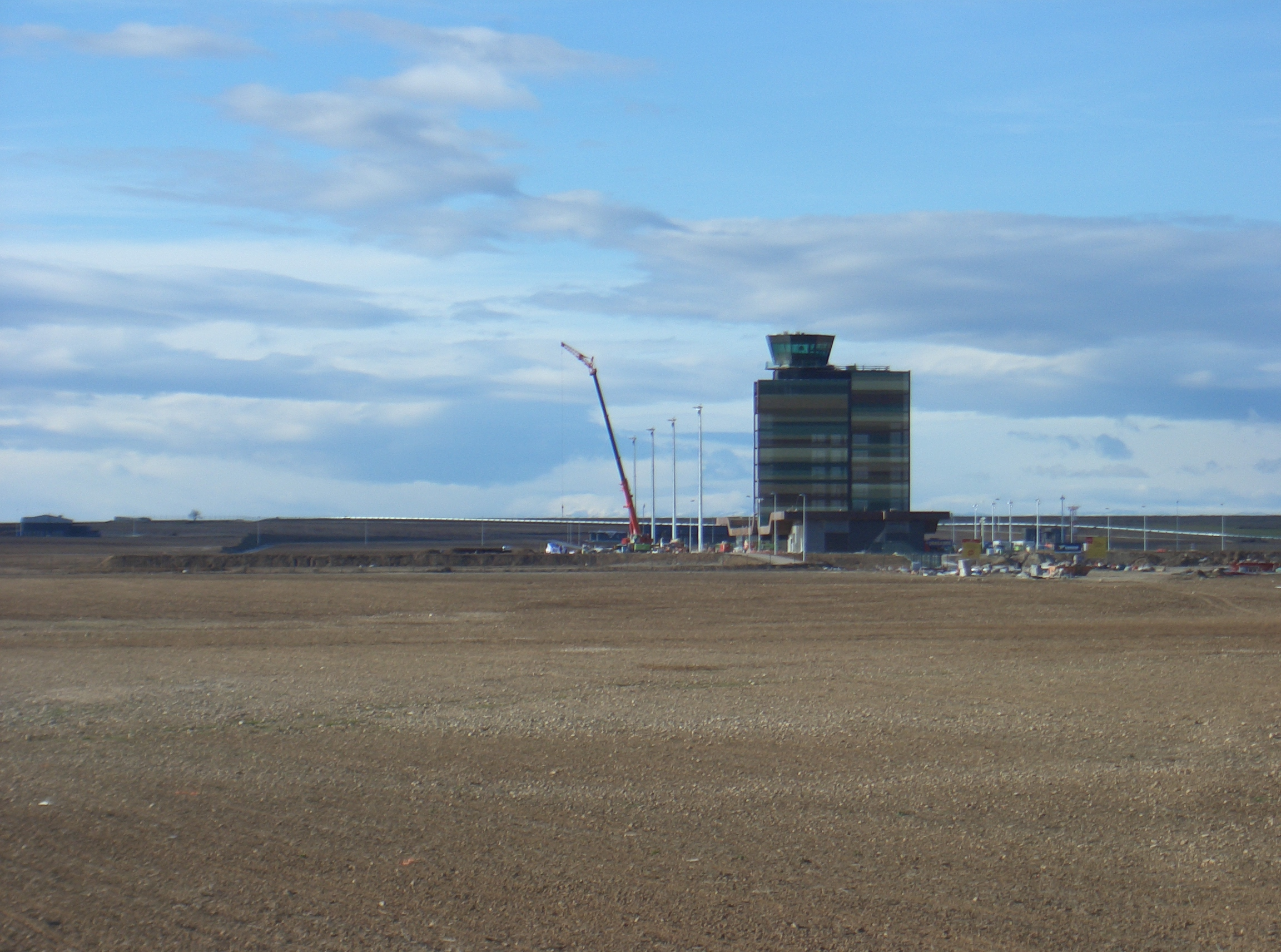 Works of the terminal of the Lleida-Alguaire Airport in Spain